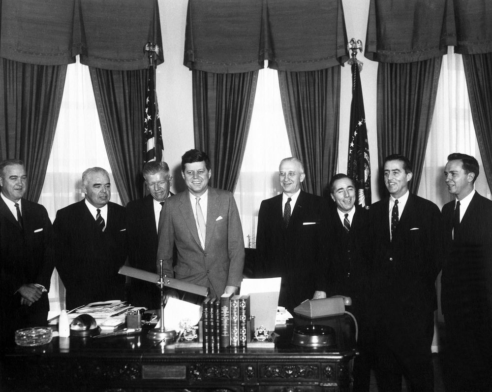 President John F. Kennedy meets with Ambassadors before the Ambassadors depart for their respective posts, Oval Office, White House, Washington, D.C. Left to right: US Ambassador to Ireland, Edward G. Stockdale; US Ambassador to Finland, Bernard Gufler; US Ambassador to Nicaragua, Aaron S. Brown; President Kennedy; US Ambassador to the Netherlands, John Rice; US Ambassador to Sweden, J. Graham Parsons; US Ambassador to Denmark, William Blair; US Ambassador to Guinea, William Attwood.